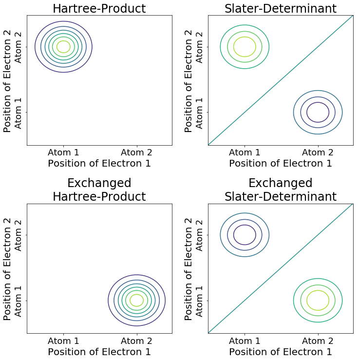 Four contour plots illustrating the different behaviour of a 1-D Wavefunction of two electrons created from a Hartree-Product and a Slater-Determinant under exchange of the two electrons